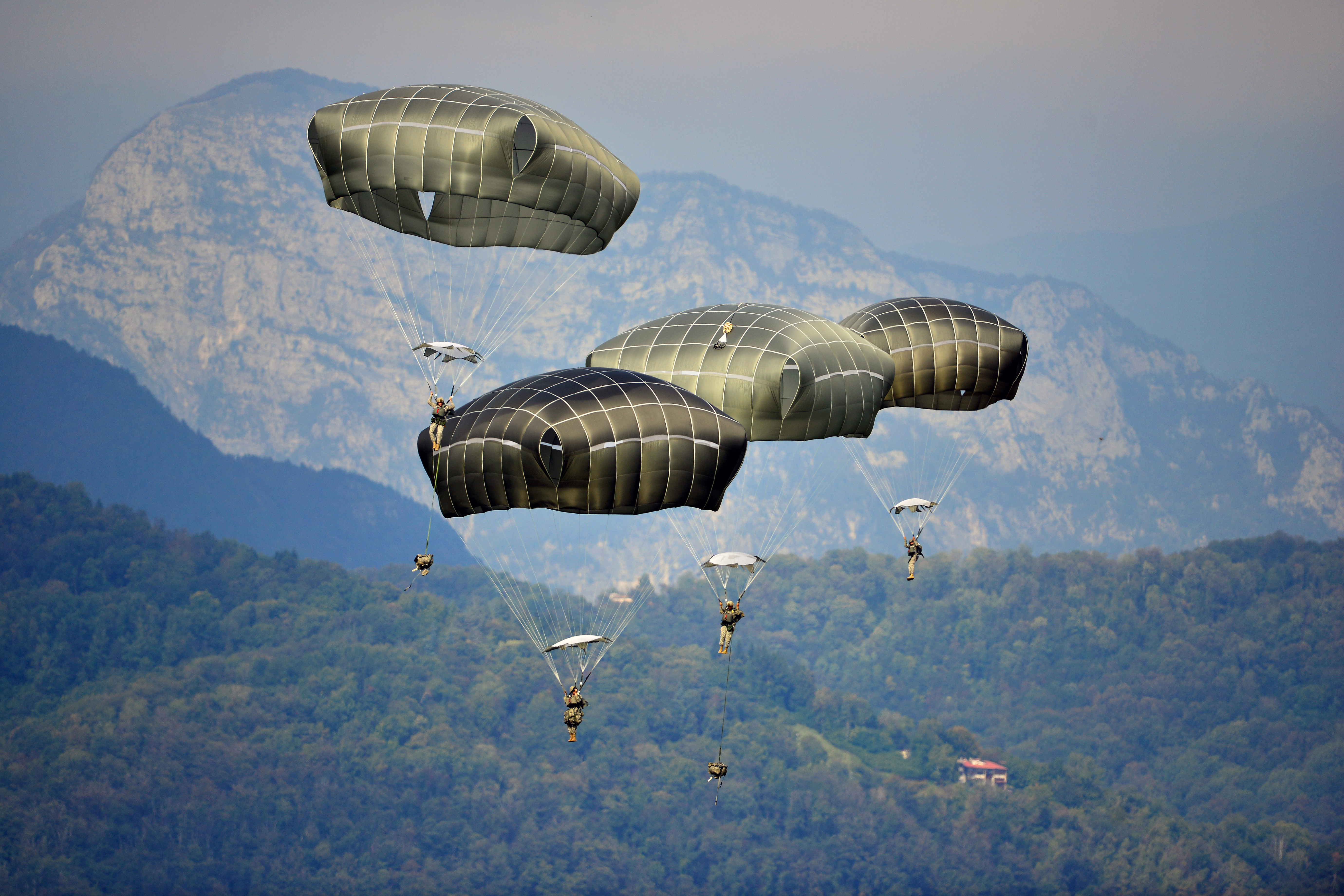 Paratroopers from 173rd Brigade Support Battalion, 173rd Airborne Brigade land after a jump at Juliet Drop Zone in Pordenone, Italy, Sept. 24. The U.S. Army paratroopers conducting an airborne operation with T-11 parachutes from C-130 Hercules Aircraft of the 86th Airlift Wing are stationed at Ramstein Air Base, Germany. (U.S. Army photo by Visual Information Specialist Davide Dalla Massara/released)